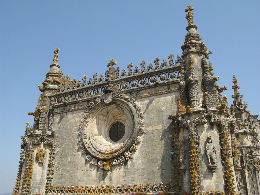 Manueline church of Christ Convent, Tomar